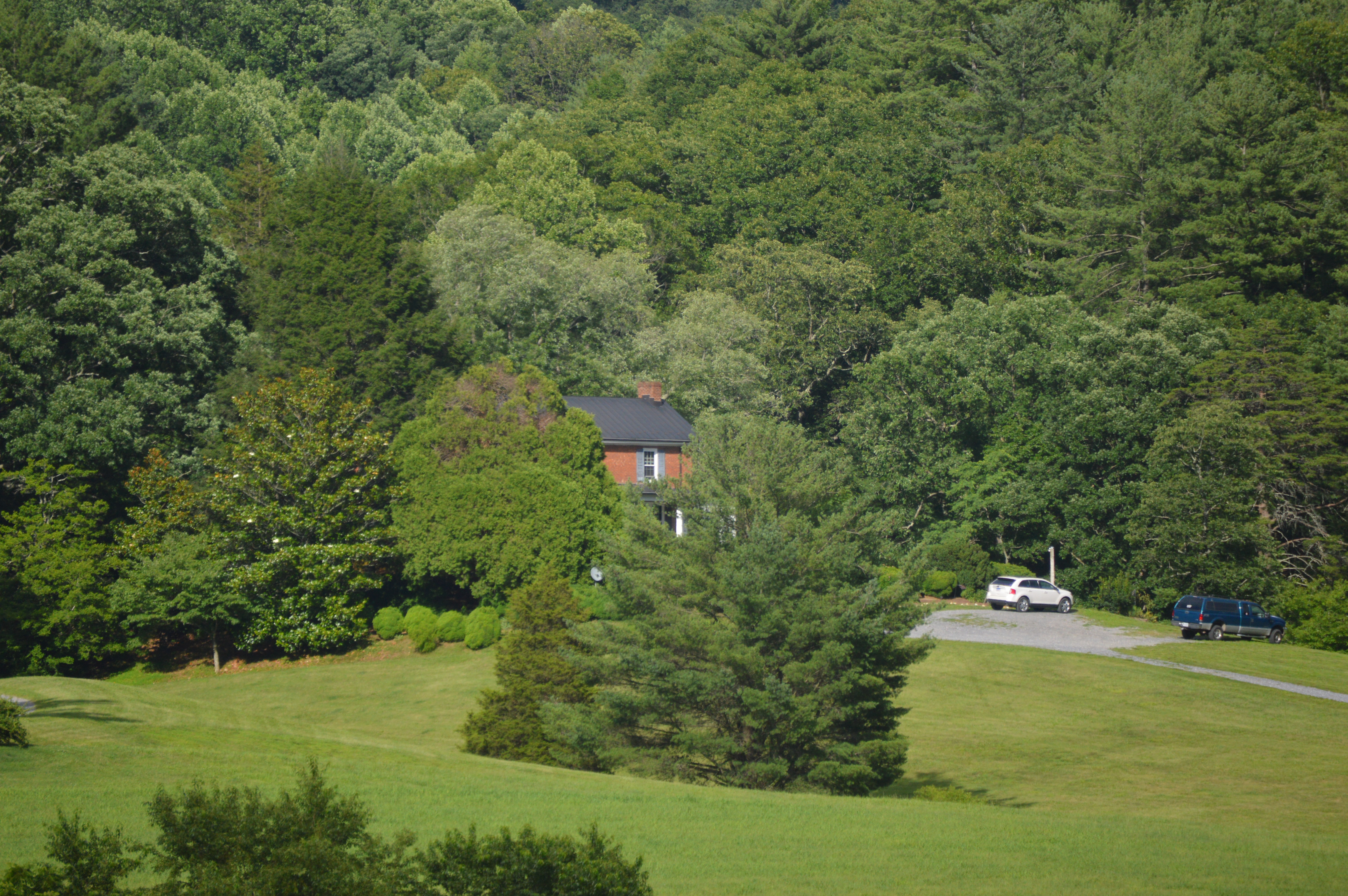 Distant view of the house at the Edgewood farm complex, located on Puppy Creek Road northwest of Amherst in Amherst County, Virginia, United States. Built in 1869, it is listed on the National Register of Historic Places.